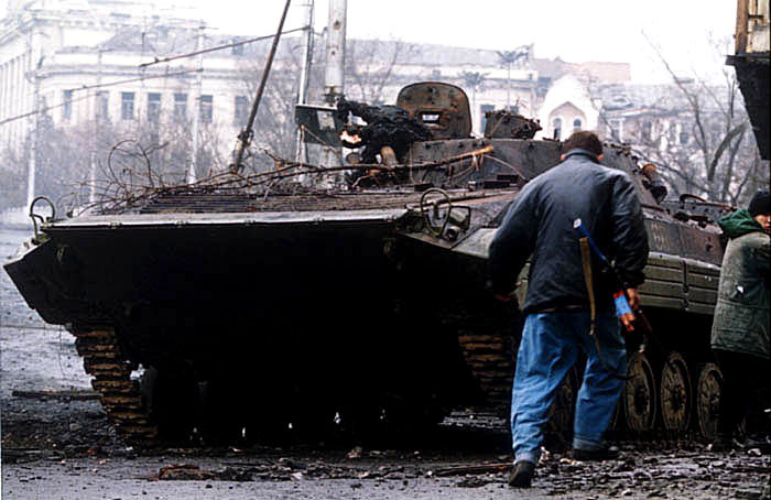 A Chechen fighter runs past a burnt Russian armoured personnel vehicle (BMP-2) during the battle for Grozny.